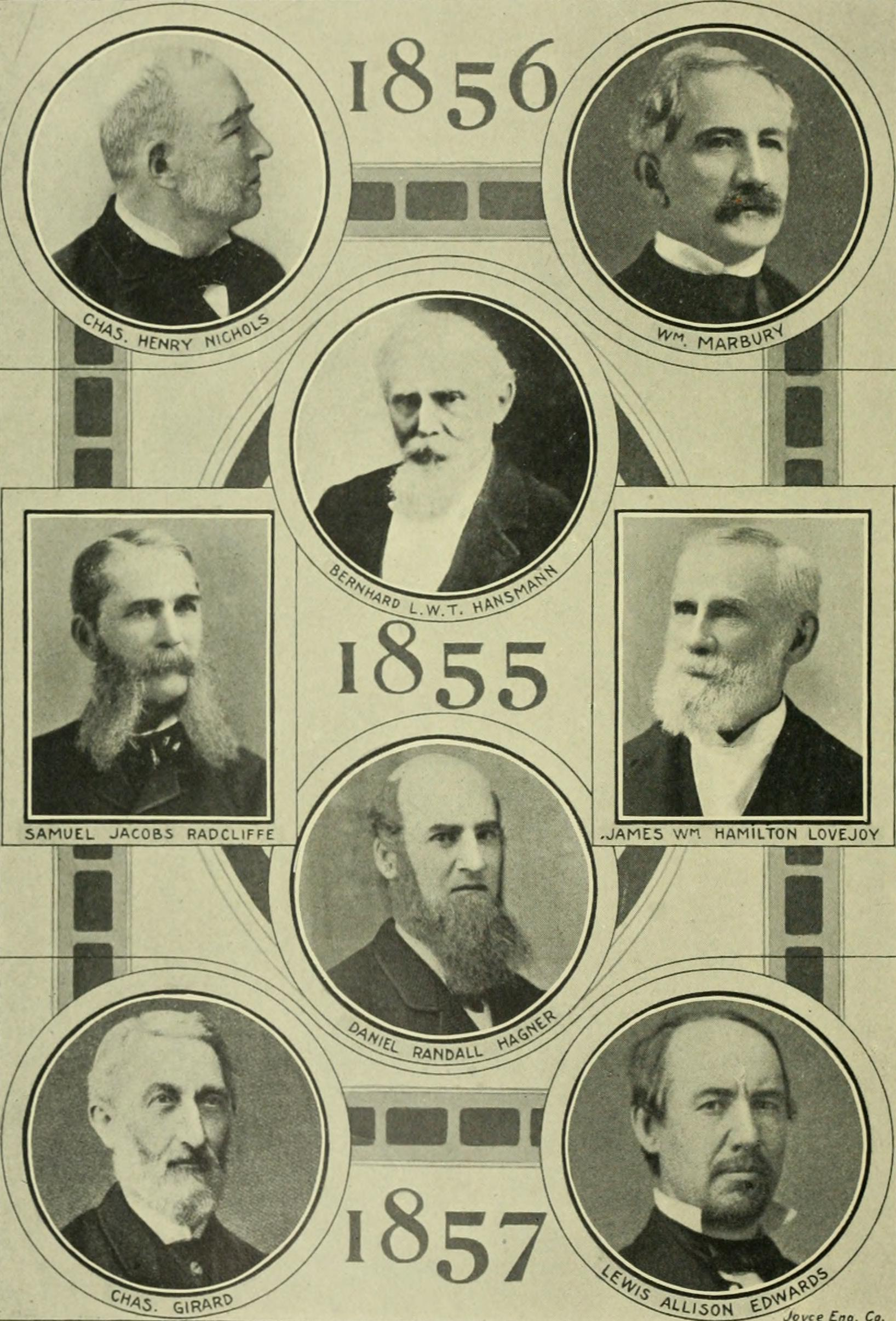 Title: History of the Medical Society of the District of Columbia, 1817-1909 Year: 1909 (1900s) Authors: Medical Society of the District of Columbia Lamb, Daniel Smith, 1843-1929 Subjects: Physicians Societies, Medical Publisher: Washington, D. C. : The Society Text Appearing Before Image: MARTIN VAN BUREN BOGAN 15 Text Appearing After Image: Joyce £ng. Co. i6 DISTRICT OF COLUMBIA 57 necessary corrections in the report; these to be verified bya committee, consisting of the President, Recording Secre-tary and Assistant Secretary, and when any alteration hadbeen made not accepted by said committee, the fact shouldbe reported to the Society at the meeting next succeedingthat at which the discussion took place, for final vote bythe Society. The office of Assistant Secretary lapsed Feb-ruary 2, 1898, and with it the above provision. The record of many cases of disease and injury reportedto the Society fails to show whether or not the pathologicalspecimens were also presented ; probably in most of thesecases they were not. The first case reported was oneby Dr. Antisell, July 19, 1865, a fracture of the skull, withabscess of brain. The second recorded case was August30th, the same year, by Dr. S. A. H. McKim ; laceration ofthe liver by shot wound. September 30th, Dr. J. FordThompson reported two cases of fracture of the skull. D